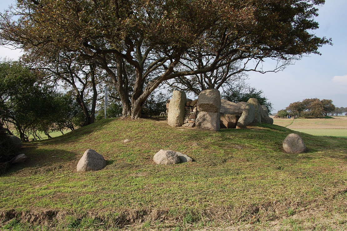 Pictures from Rerik